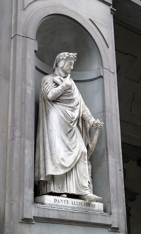 Dante Alighieri on the facade of Uffizi Gallery in Florence